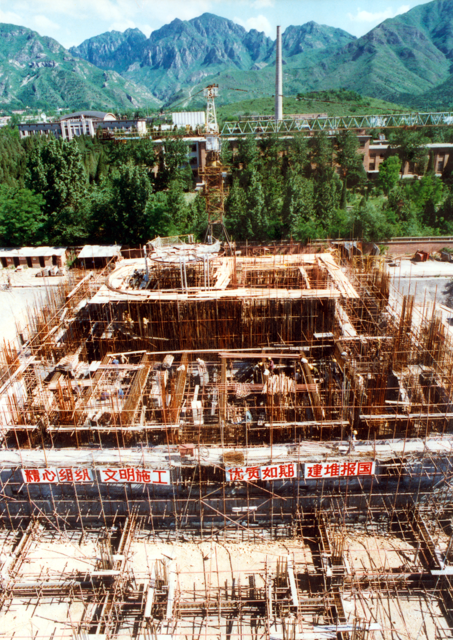 Construction work on China's high temperature reactor at the Institute of Nuclear Energy Technology. (INET, China) Photo Credit: IAEA